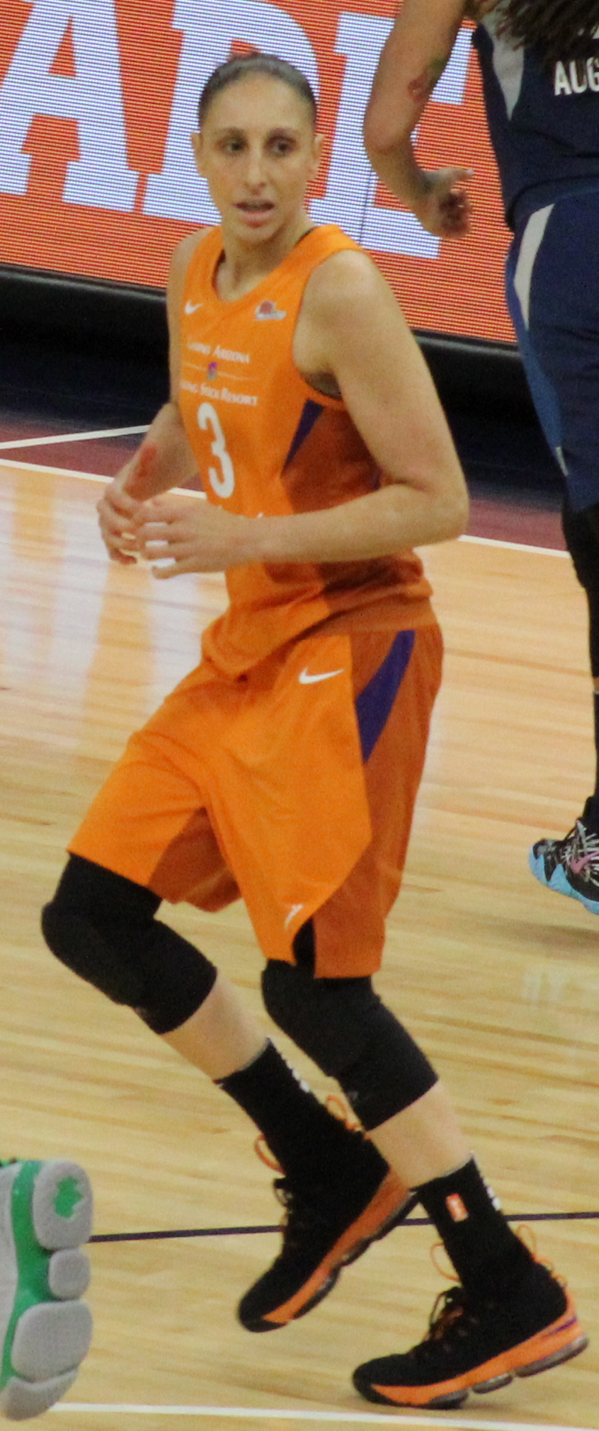 Diana Taurasi of the Phoenix Mercury in 2018